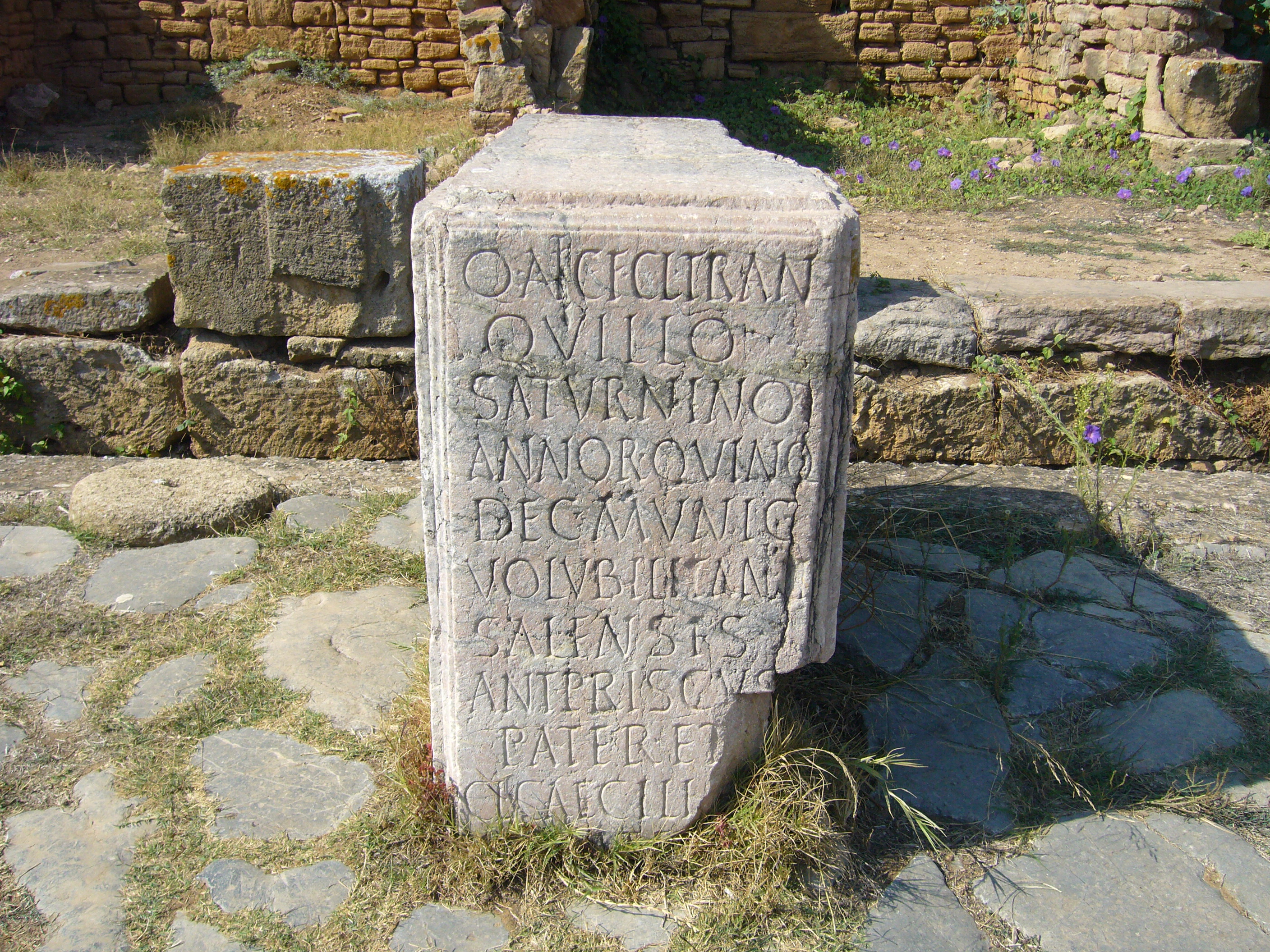 Roman carved stone on the ancient site of Sala Colonia (Chellah)